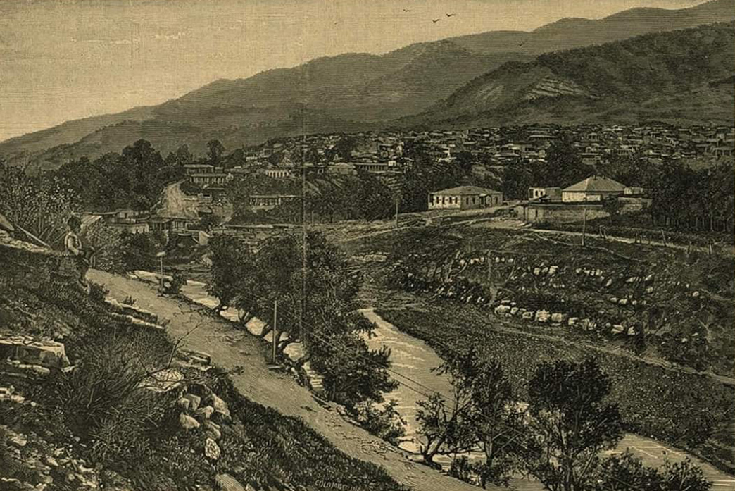 Ijevan in 1893